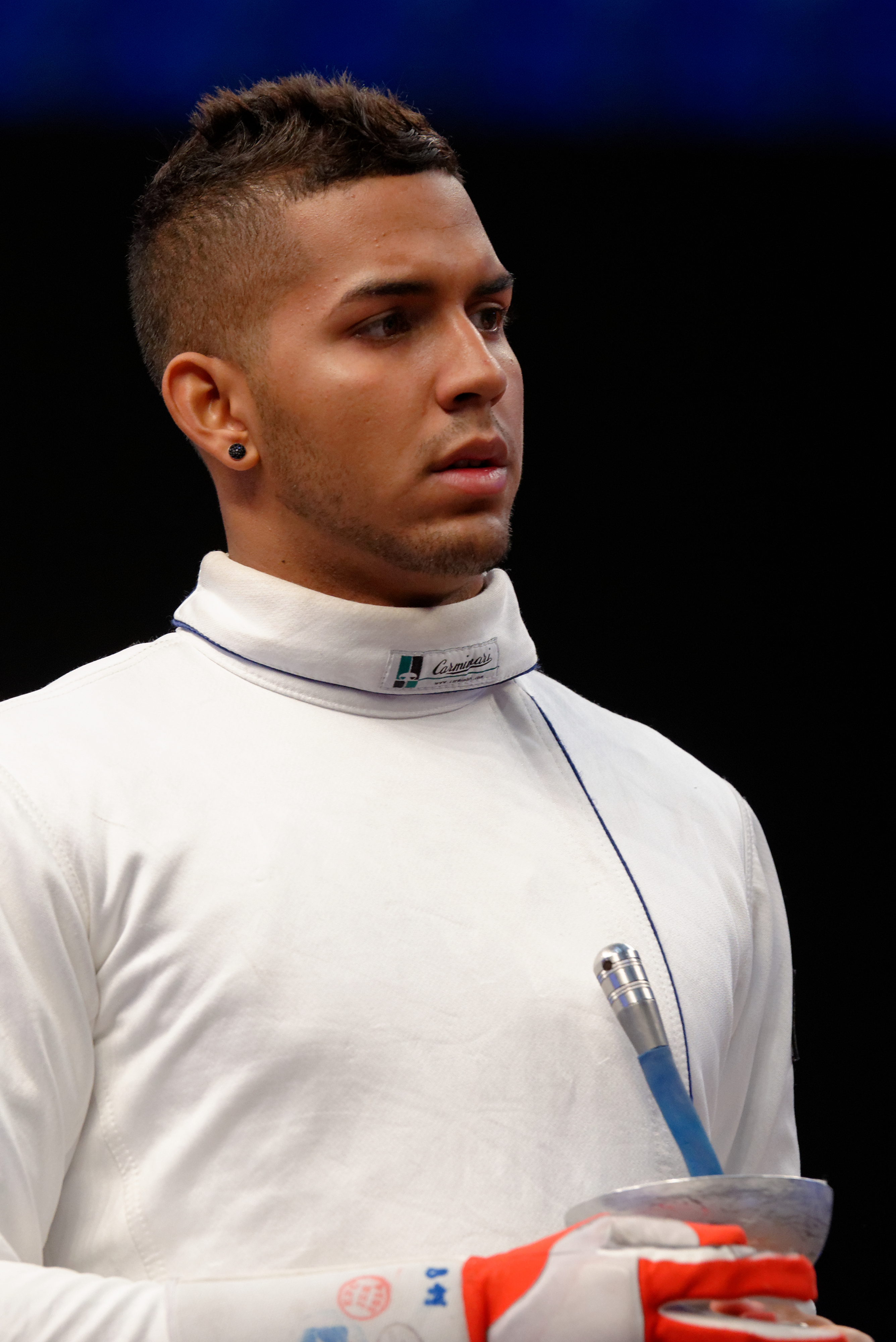 Yulen Pereira of Spain during his T64 match against Korea's Park Sang-young at the 2014 Challenge RFF-Trophée Monal, a men's épée World Cup event, on 3 May 2014.